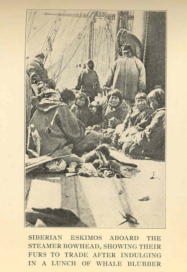 Siberian Eskimos aboard the steamer bowhead, showing their furs to trade after indulging in a lunch of whale blubber Subject: Eskimos, Fur traders Tag: People, Polar